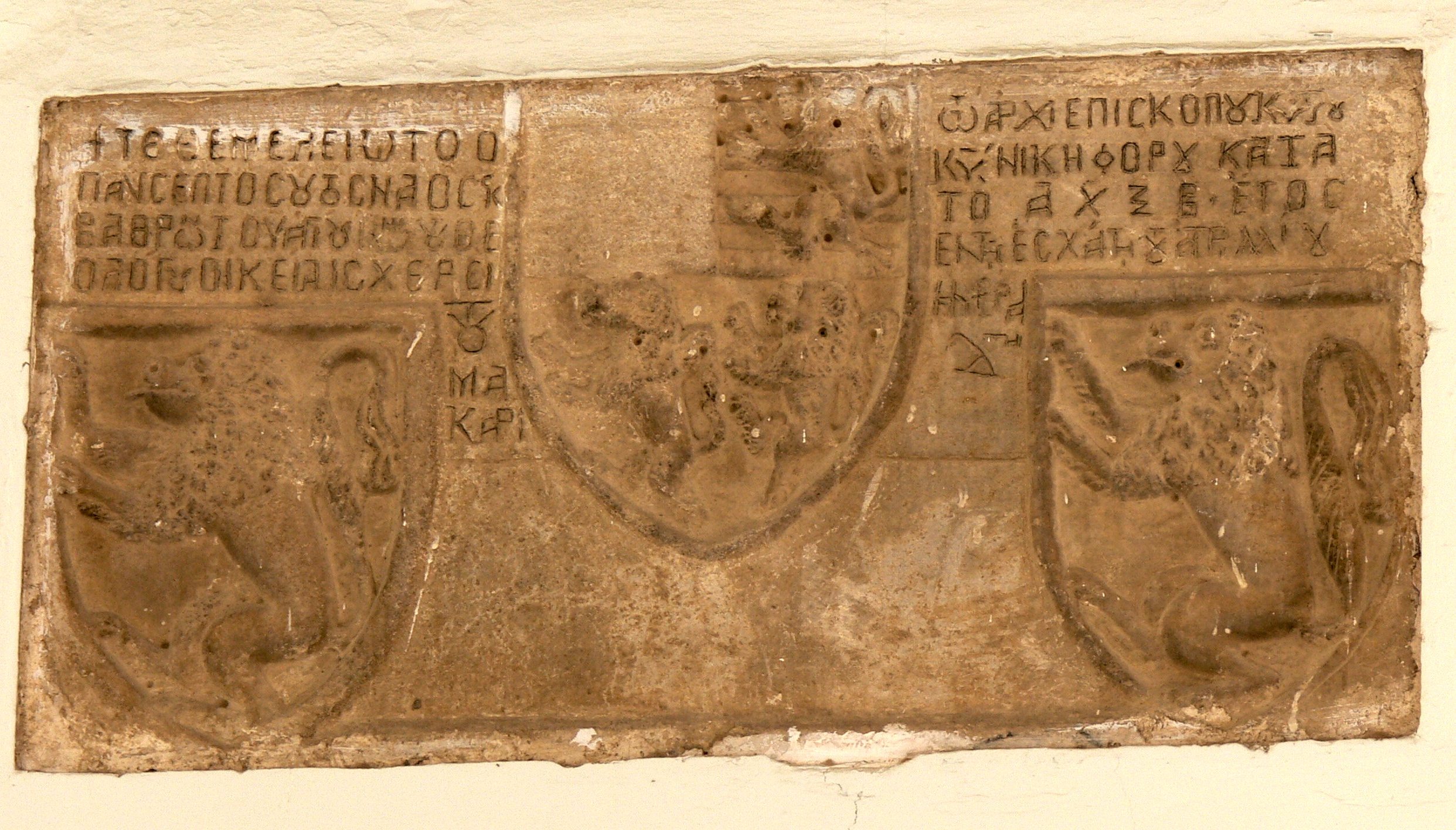 Nicosia ( Cyprus ). Cathedral of Saint John ( 1662 ): Foundation inscription with coats of arms of the Lusignan above the entrance.